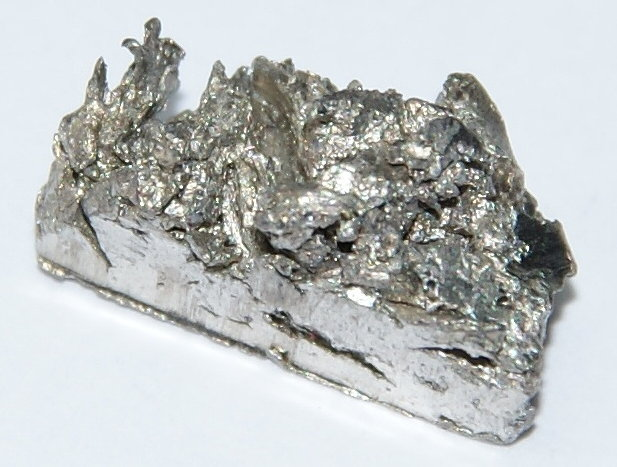 Ytterbium, 0.5 x 1 cm.